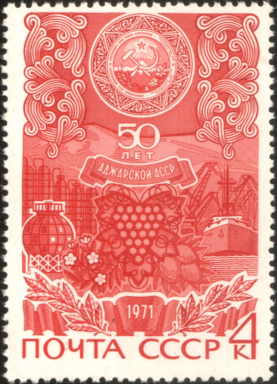 USSR stampː Adjar Autonomous Soviet Socialist Republic (Established on 1921.07.16). Seriesː 50th Anniversary of the Autonomous Republics of the Soviet Union